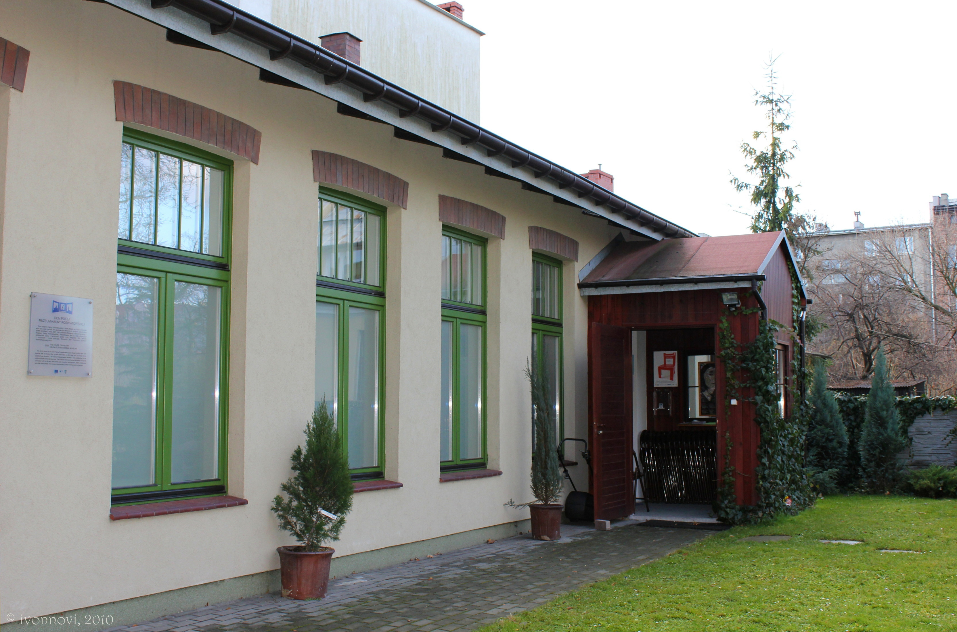 Picture of the Poetry House - Museum of Halina Poświatowska at 23 Jasnogórska Str., Częstochowa - outside view.